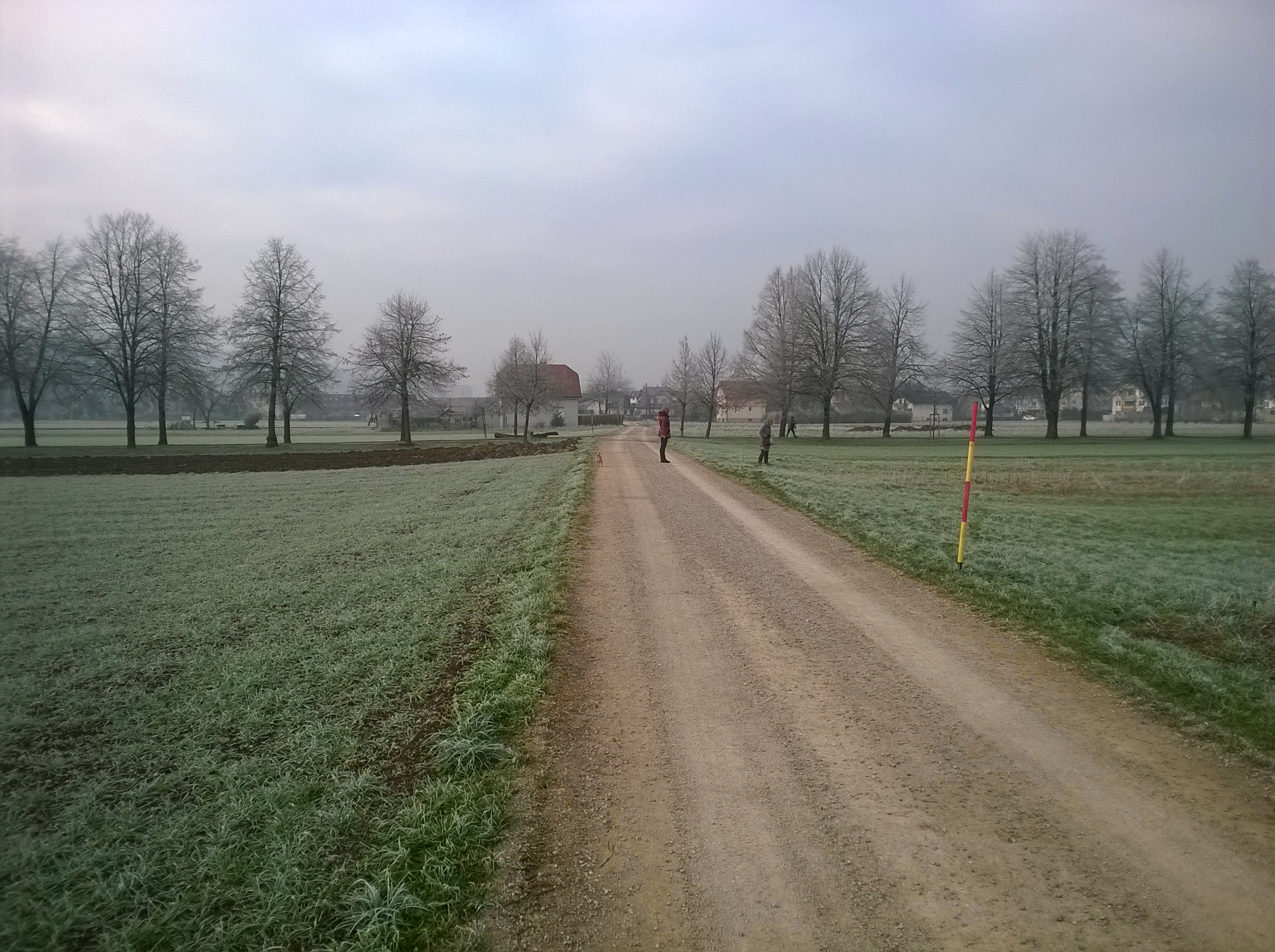 Pot do šole, Spodnja Hrušica, Ljubljana